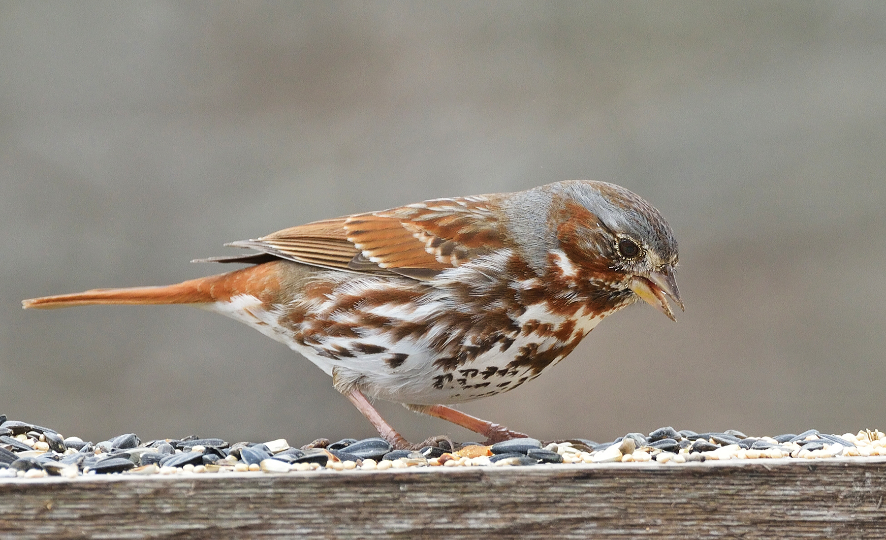 Red Fox Sparrow Passerella iliaca, Kansas City, Missouri, USA